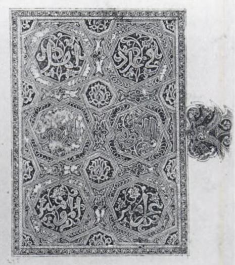 Qur'an of Ibn Al-Bawwab (Baghdad, 391 AH, 1000-1001 AD). Fronticepiece with interlacing octagons and tuluth script.